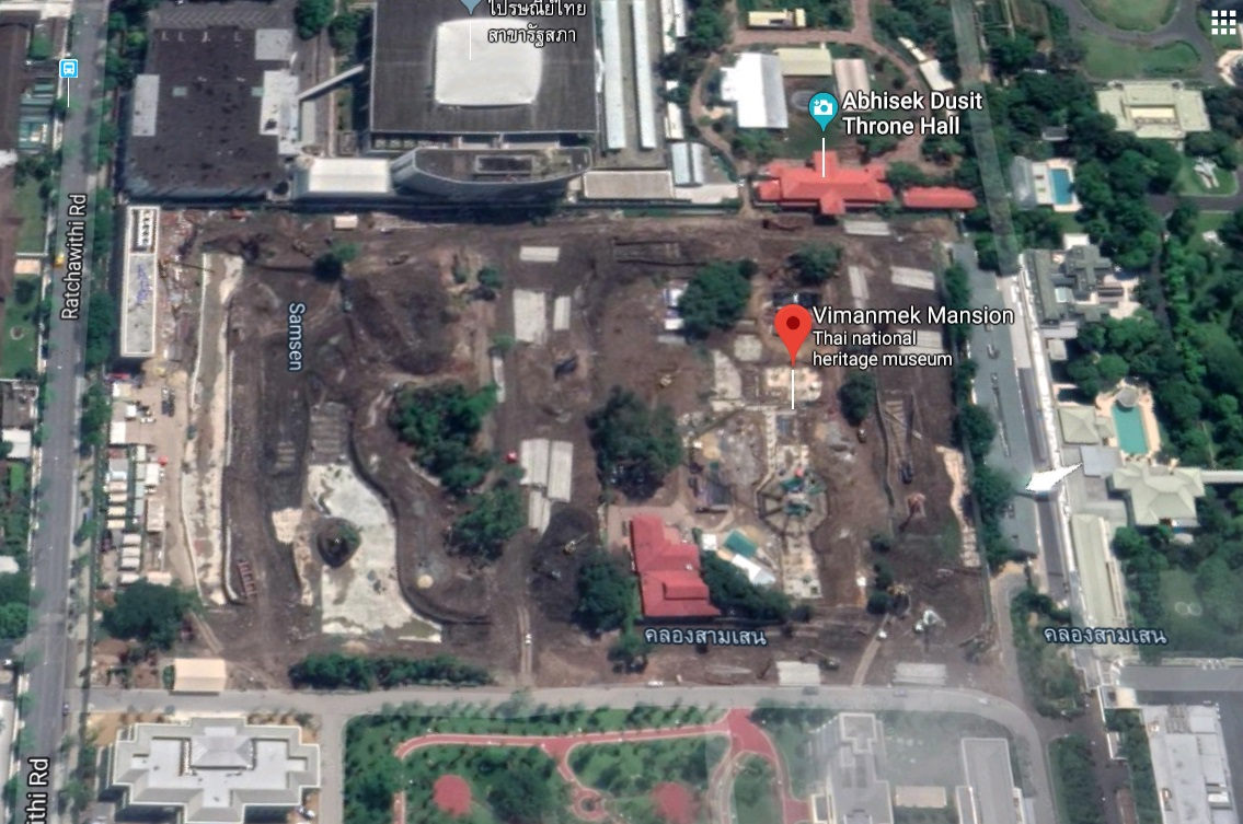 Vimanmek Mansion